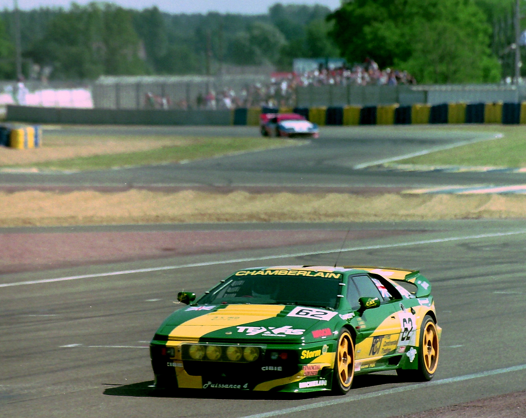 Lotus Esprit Sport 300 - Richard Piper, Peter Hardman & Olindo Iacobelli heads onto the pit straightat the 1994 Le Mans